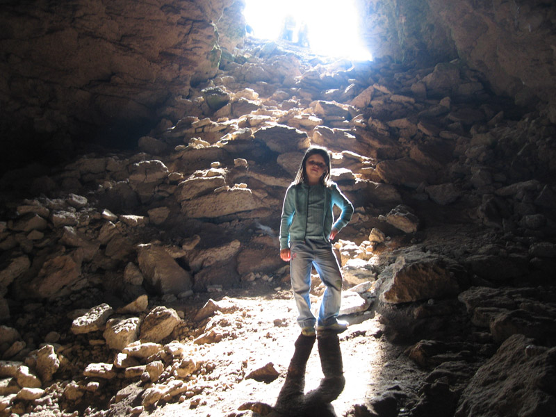 The Warm cave of Ichalki forest